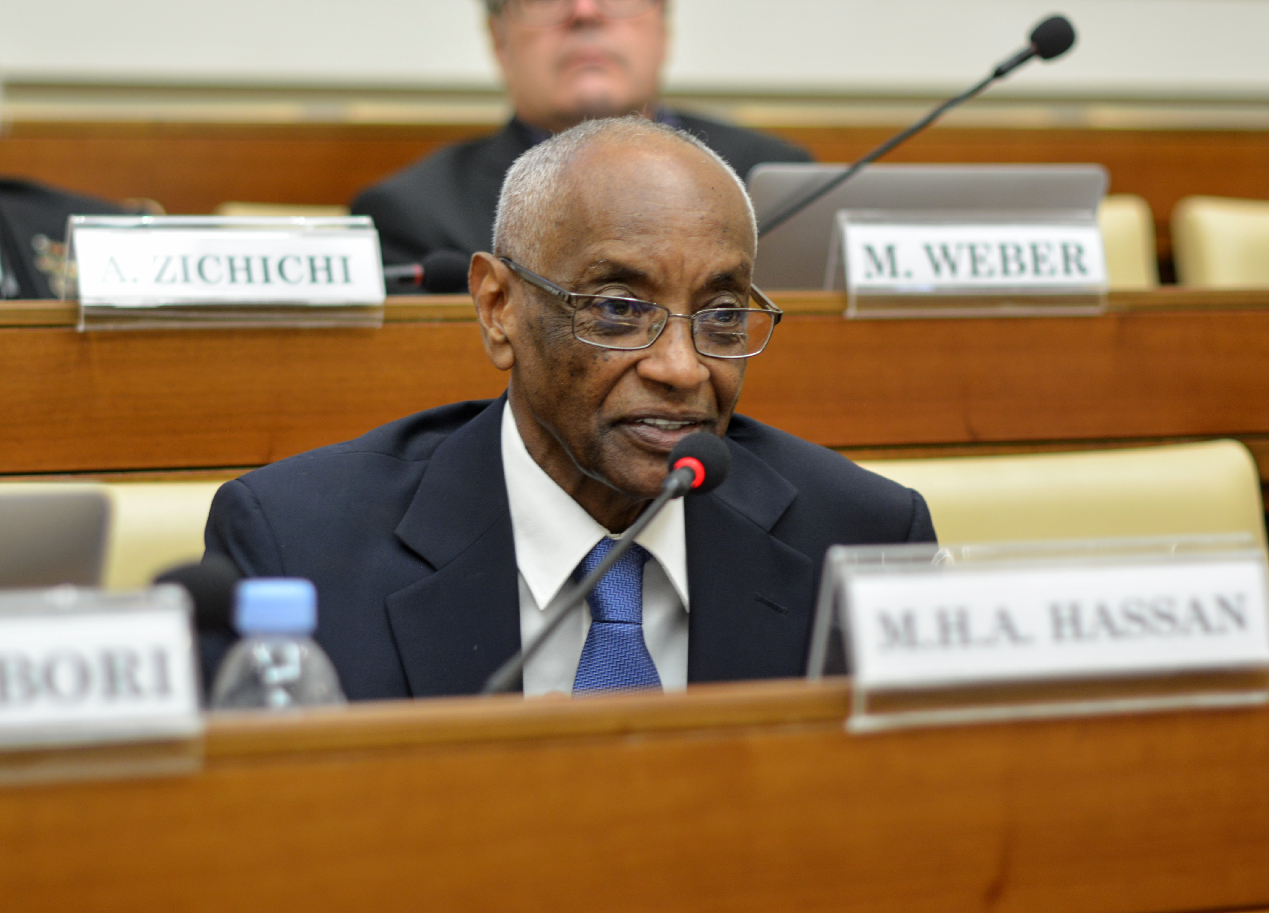 Mohamed H.A. Hassan makes his introductory speech as a new member of the Pontifical Academy of Sciences, November 2018